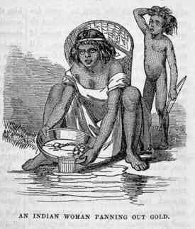 Illustration of Native woman panning for gold